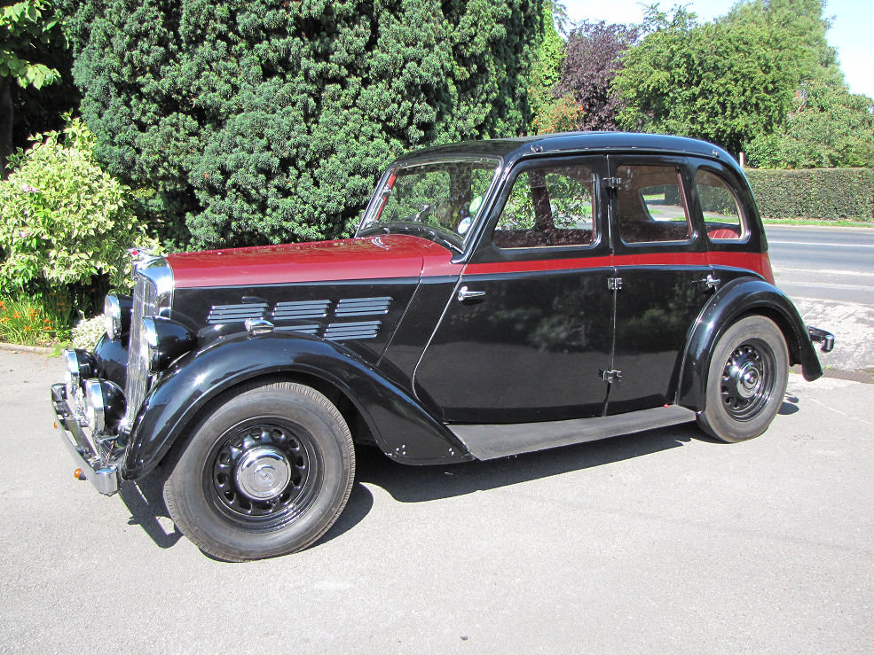 Morris 10-4 Series III - 1938 Morris 10-4 Series II